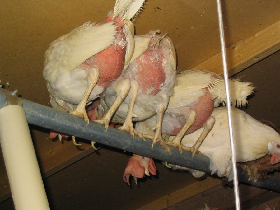 chicken with bald spots in a deep-litter system